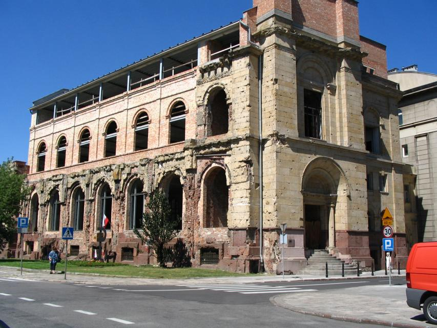 Ruins of Bank Polski in Warsaw. The building was one of the redoubts guarding the Old Town during the Warsaw Uprising. It changed hands several times and was eventually almost totally destroyed by German artillery. After the war the ruins (together with the nearby minting house) remained untouched due to lack of funds. In the early 1990's the municipal council sold the terrain to one of the companies that was to erect a Warsaw Uprising museum. However, the works soon came to a halt due to both economical and political problems and the future of the building is currently disputed.